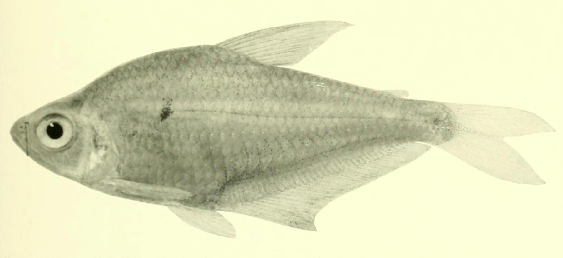 Annals of the Carnegie Museum - Phenacogaster beni Cut-out from original (Annals of the Carnegie Museum (1911-1913) (18226917269).jpg) shown below